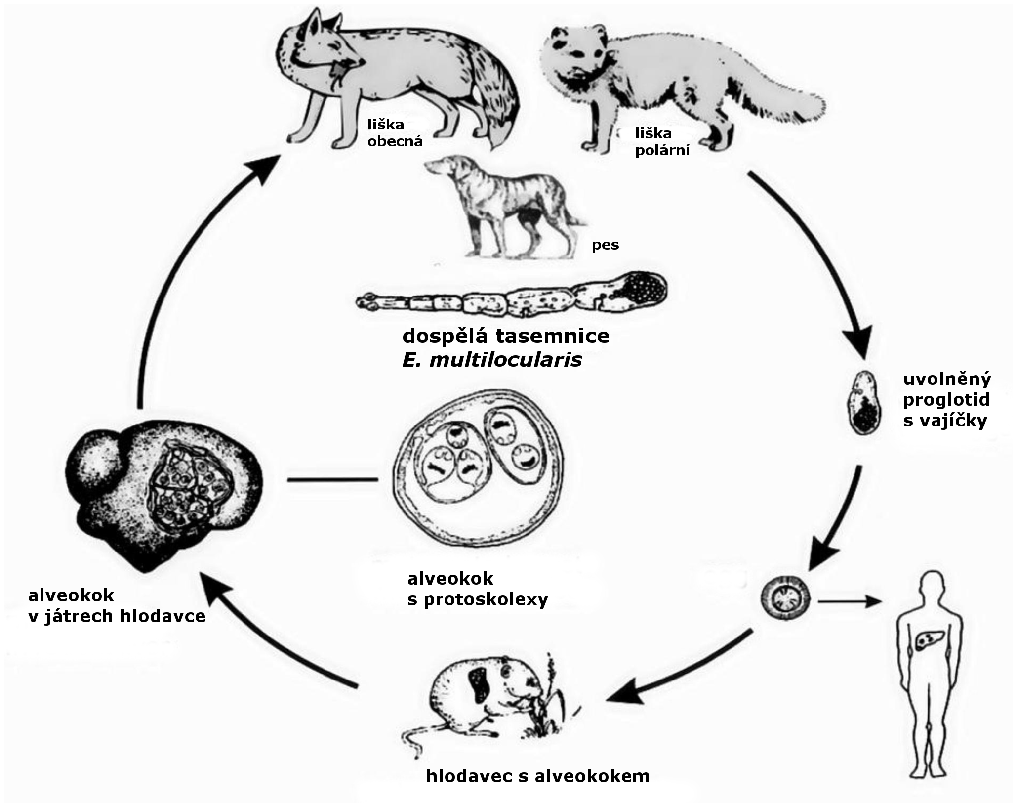 The life cycle of Echinococcus multilocularis. Red fox and arctic fox serve as main definitive hosts. Rodents such as common voles serve as typical intermediate hosts. Man is infected as an aberrant intermediate host.